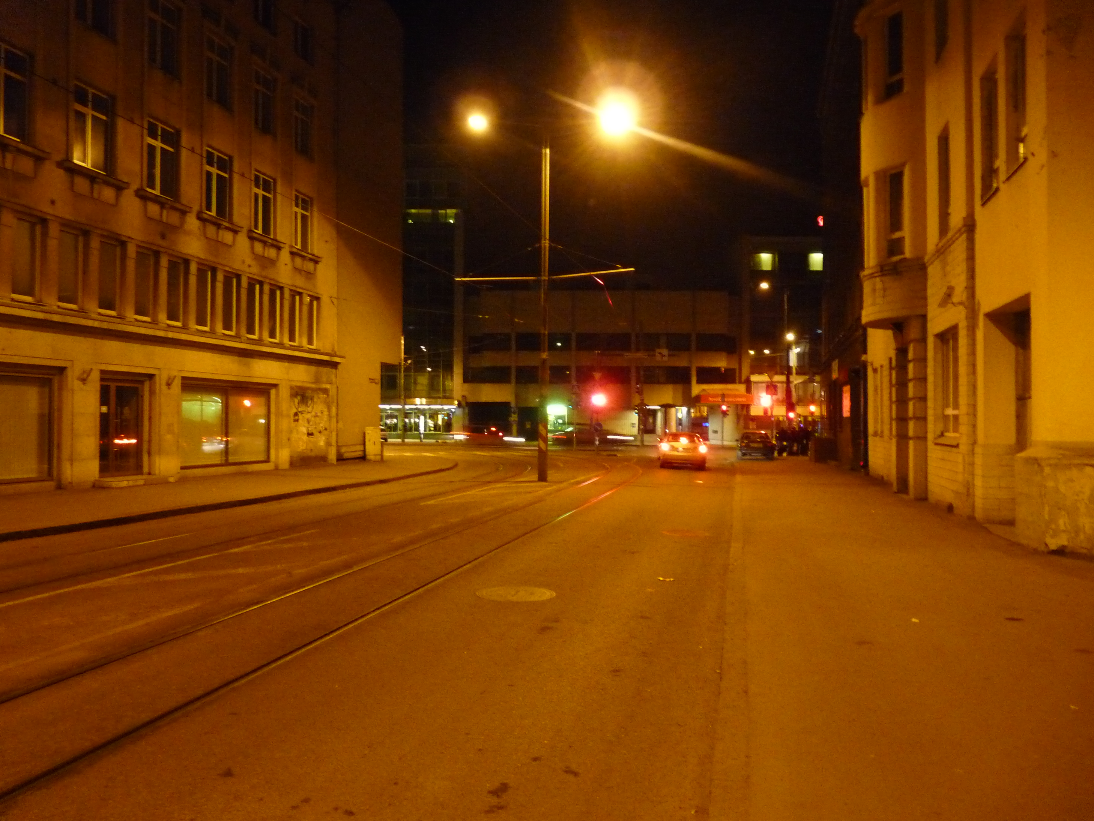 Intersection of Maneeži street and Narva highway in Tallinn